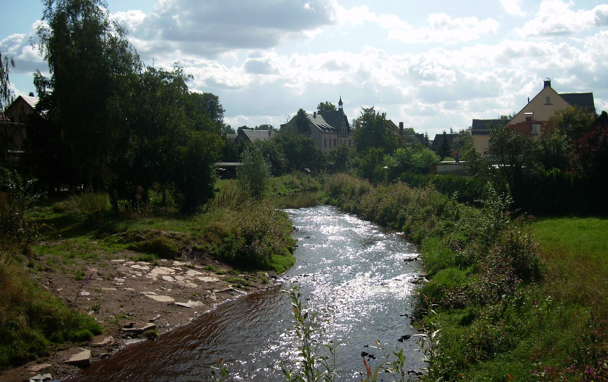 Lungwitzbach stream in Niederlungwitz (Glauchau, Zwickau district, Saxony)